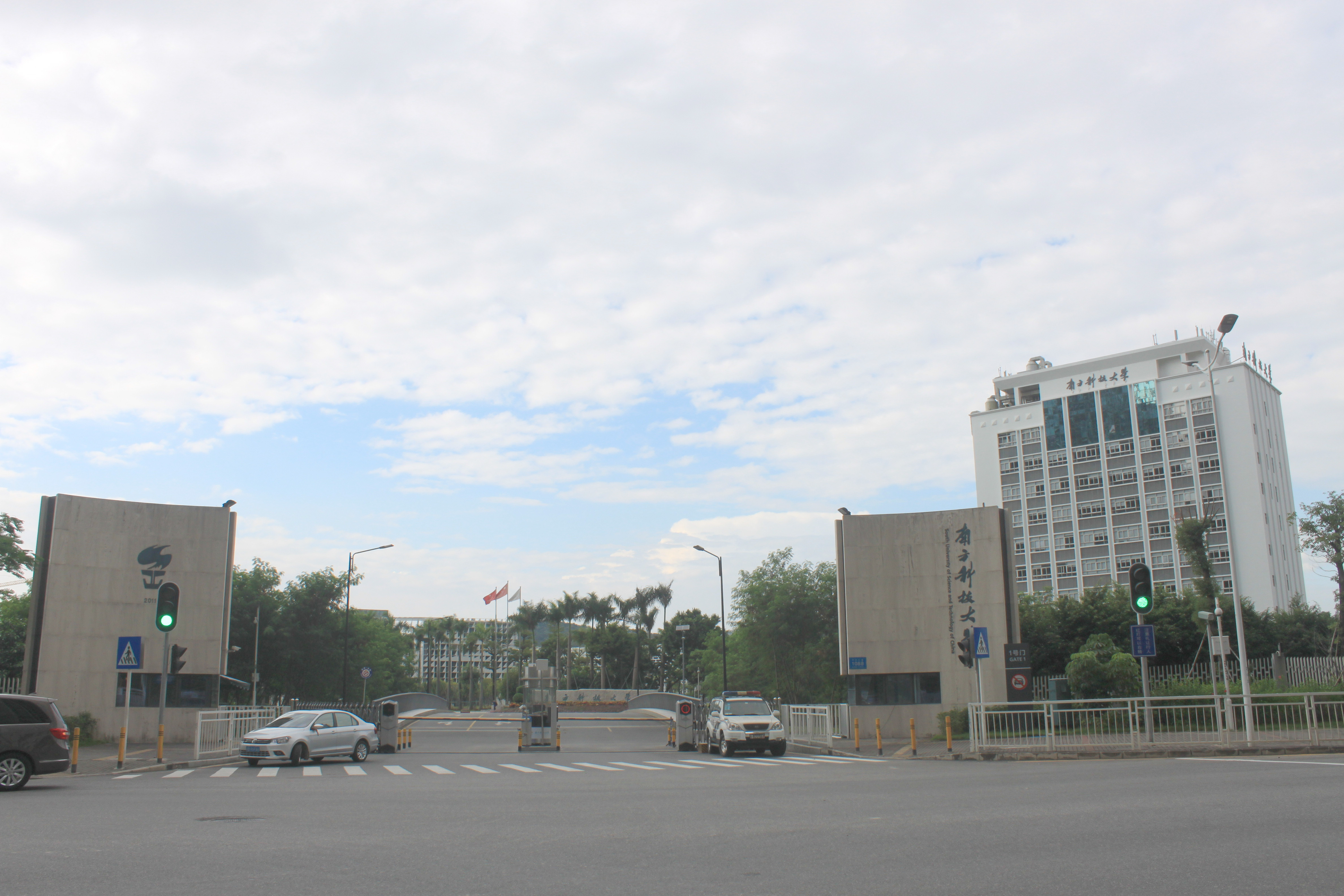 Main gate of the South University of Science and Technology of China.